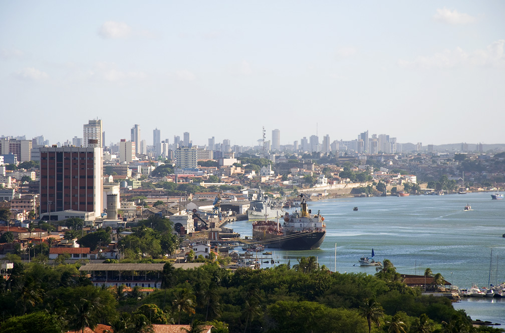 Port of Natal in Natal, Brazil.